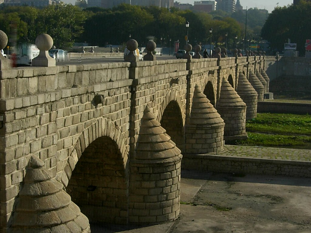 Segovia Bridge in Madrid (Spain).